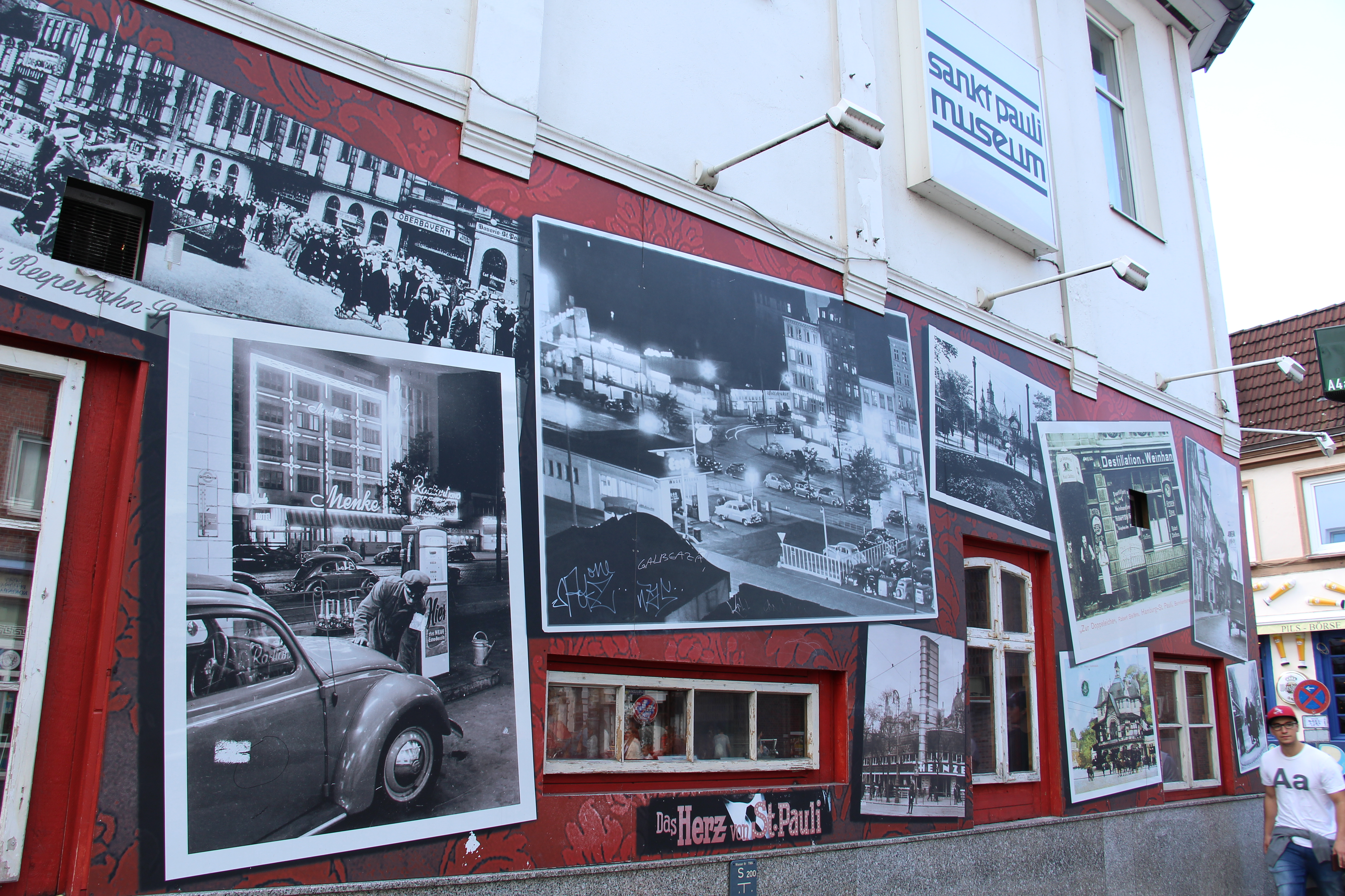 Sankt Pauli. Davidstraße The museum was founded in 1988 by the Hamburg author and journalist Günter Zint. After several places, it has moved at Davidstraße 17 since 2010